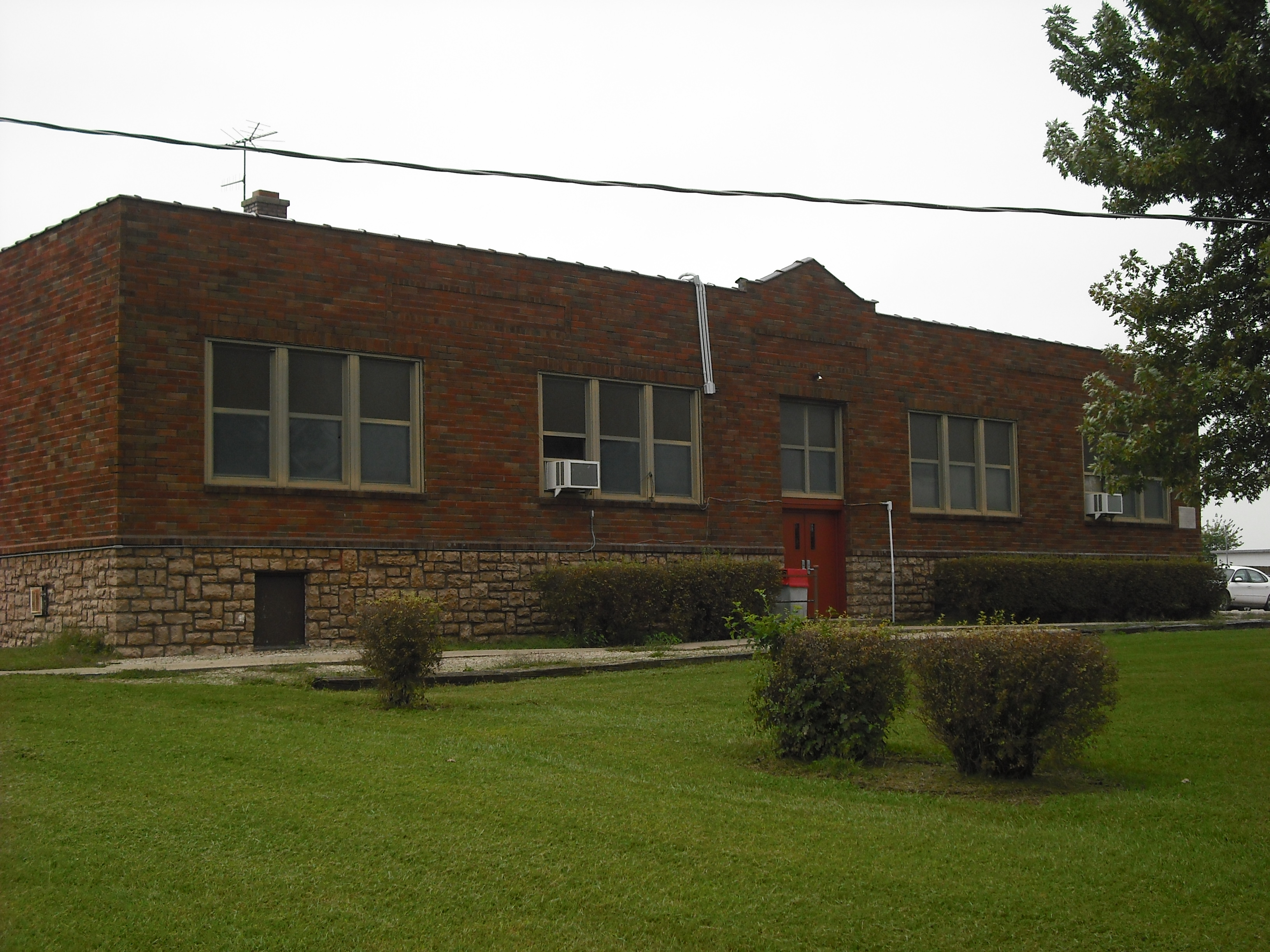 The old Appanoose Elementary School built in 1919, located in front of the new elementary school in Appanoose Township north of Pomona, Kansas.